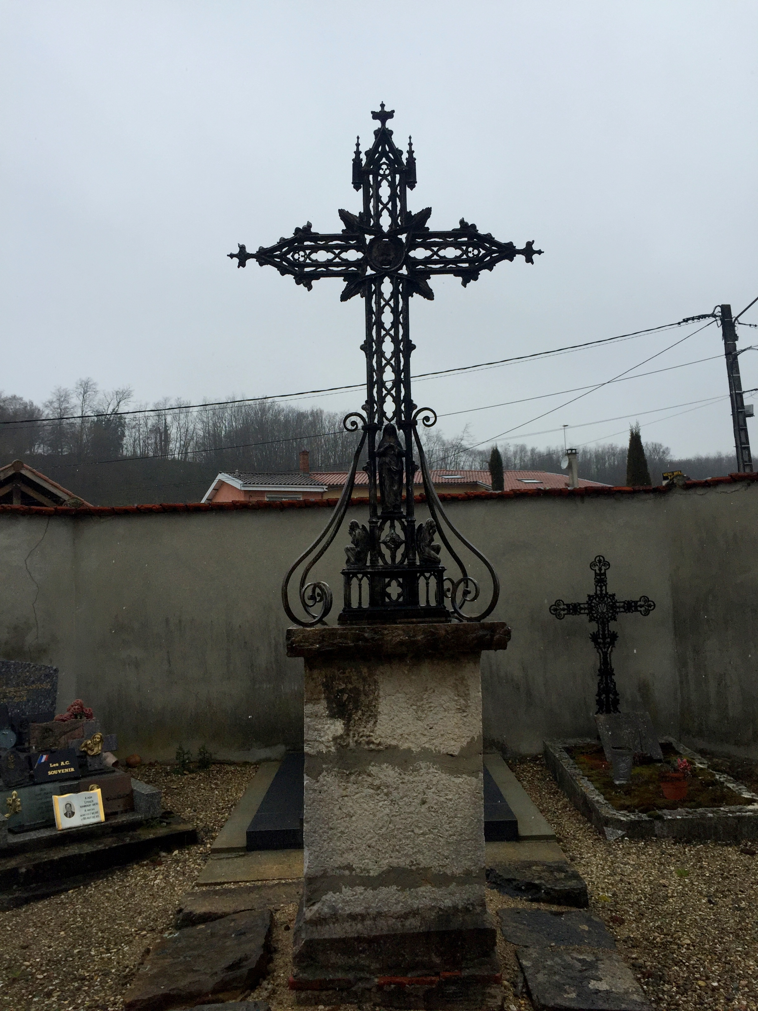 Cemetery cross of the cemetery of Jailleux (Montluel, France)